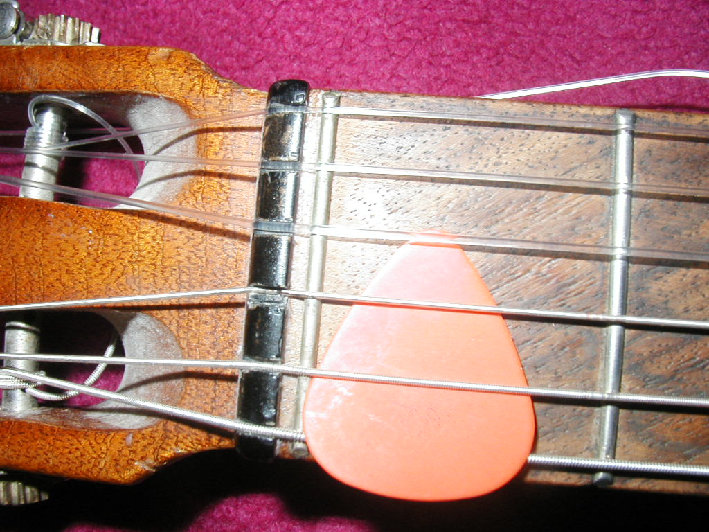 Plectrum on guitar